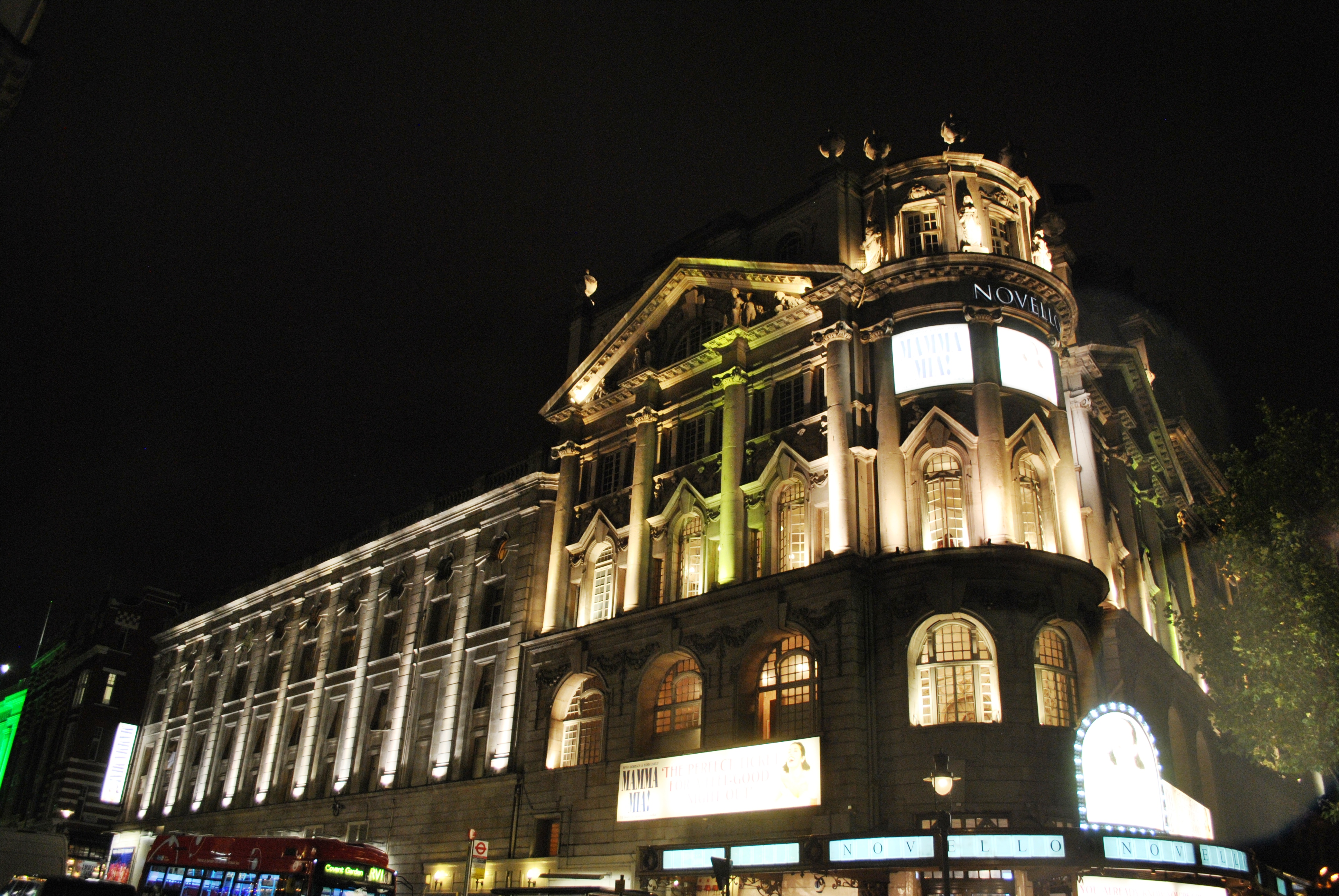 Image originally published in Queer Places: Retracing the Steps of LGBTQ people around the World Authored by Elisa Rolle